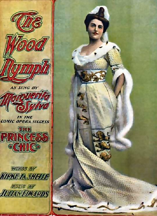 The Princess Chic poster with Marguerita Sylva, c. 1901